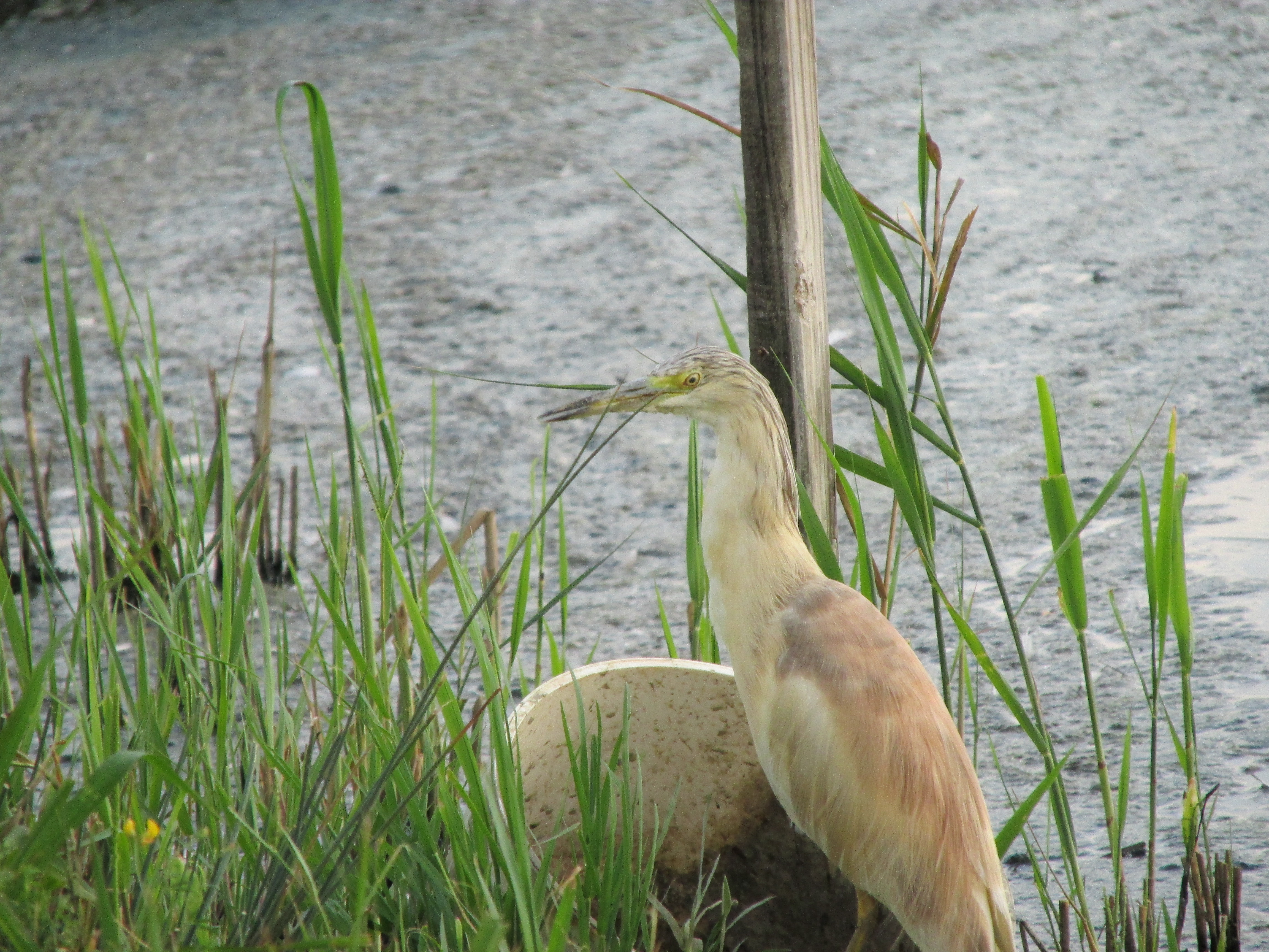 Ardeola ralloides